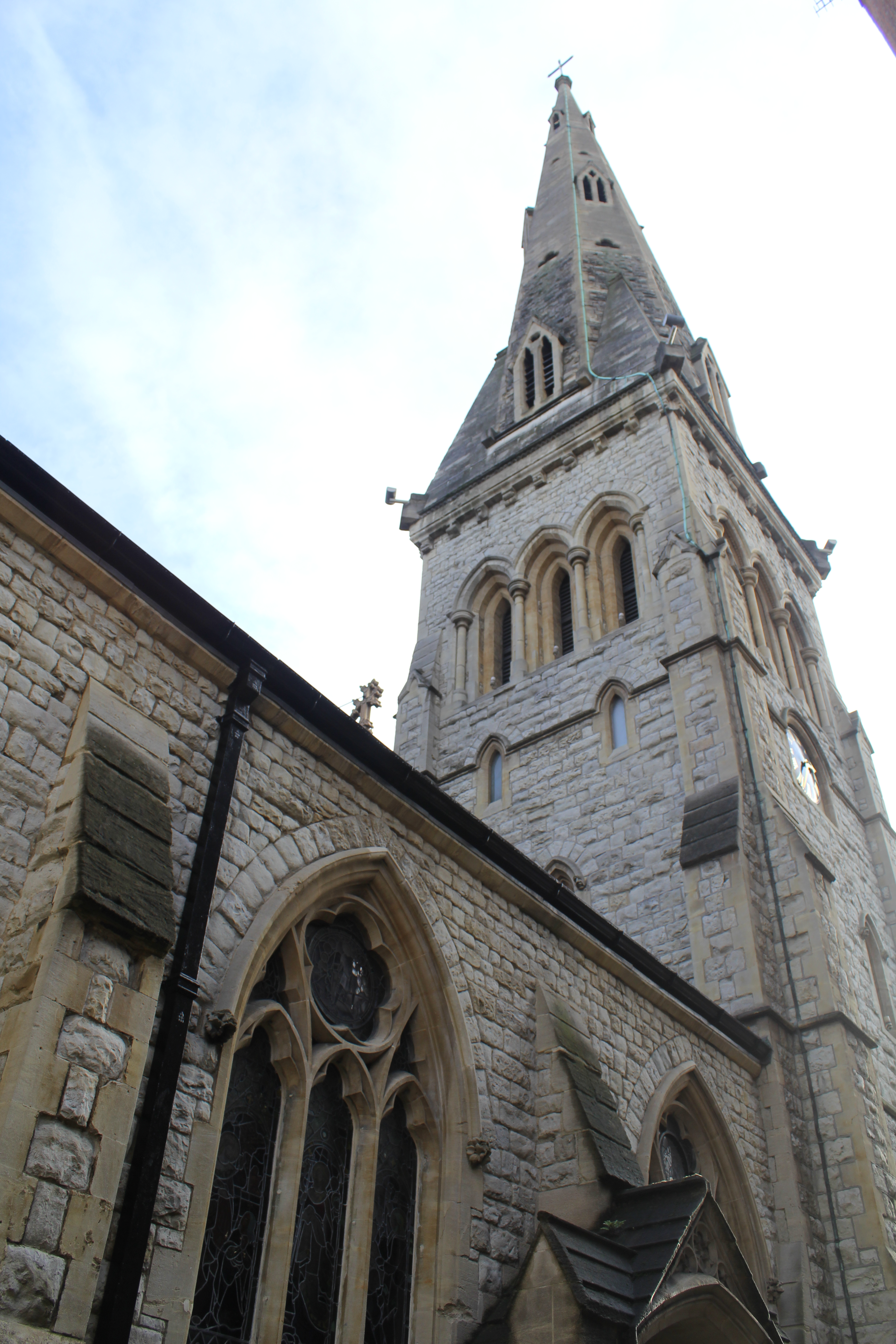 Tower and broach spire of St Yeghiche's church, South Kensington, London SW7